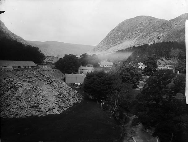 1 negative : glass, dry plate, b&w ; 16.5 x 21.5 cm.